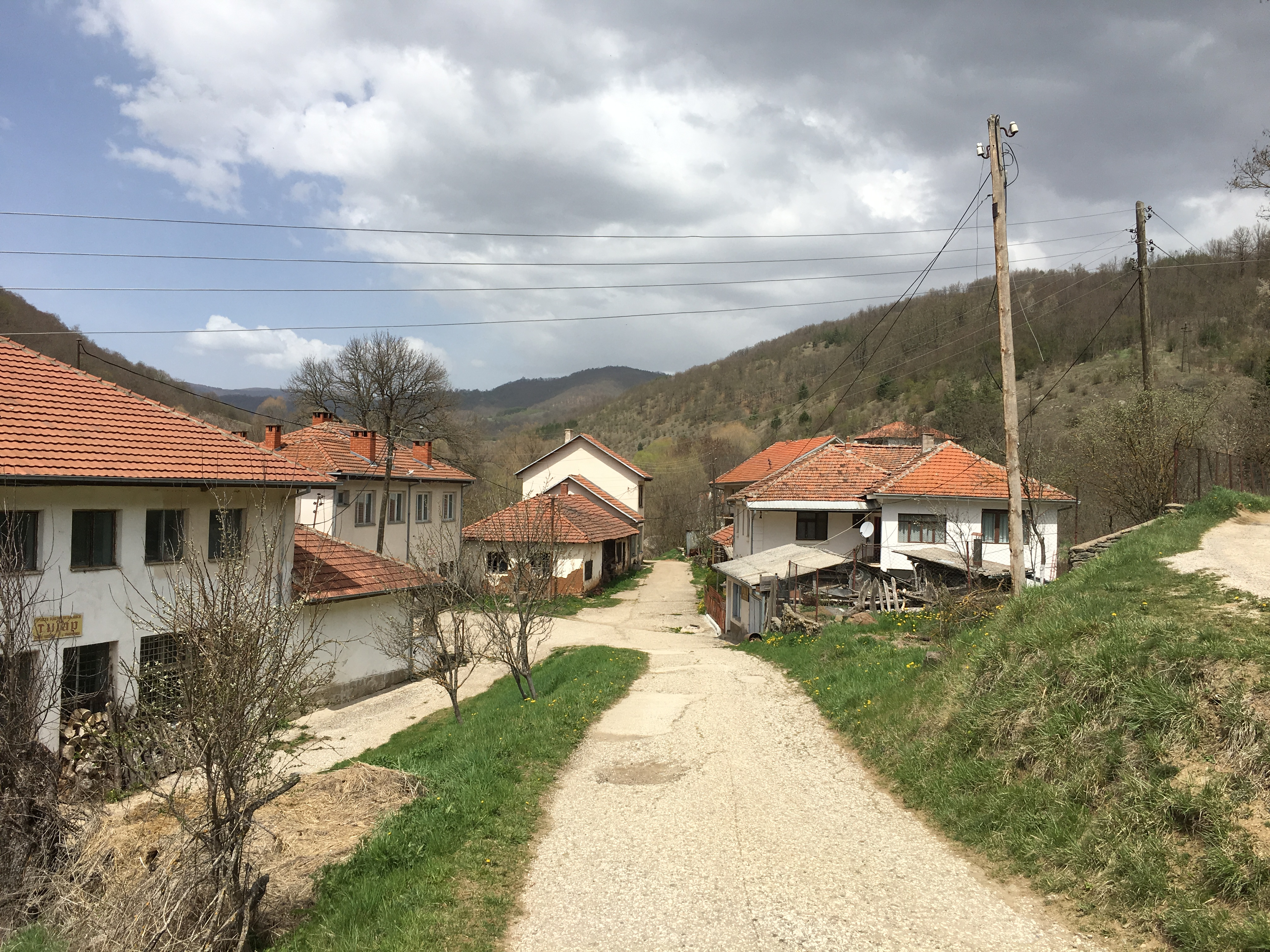 A view of the village of Dobrovnica